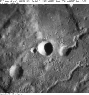 LO-IV-151H Väisälä is in the center. The crater in the lower left is Aristarchus Z. The rilles are part of Rimae Aristarchus.